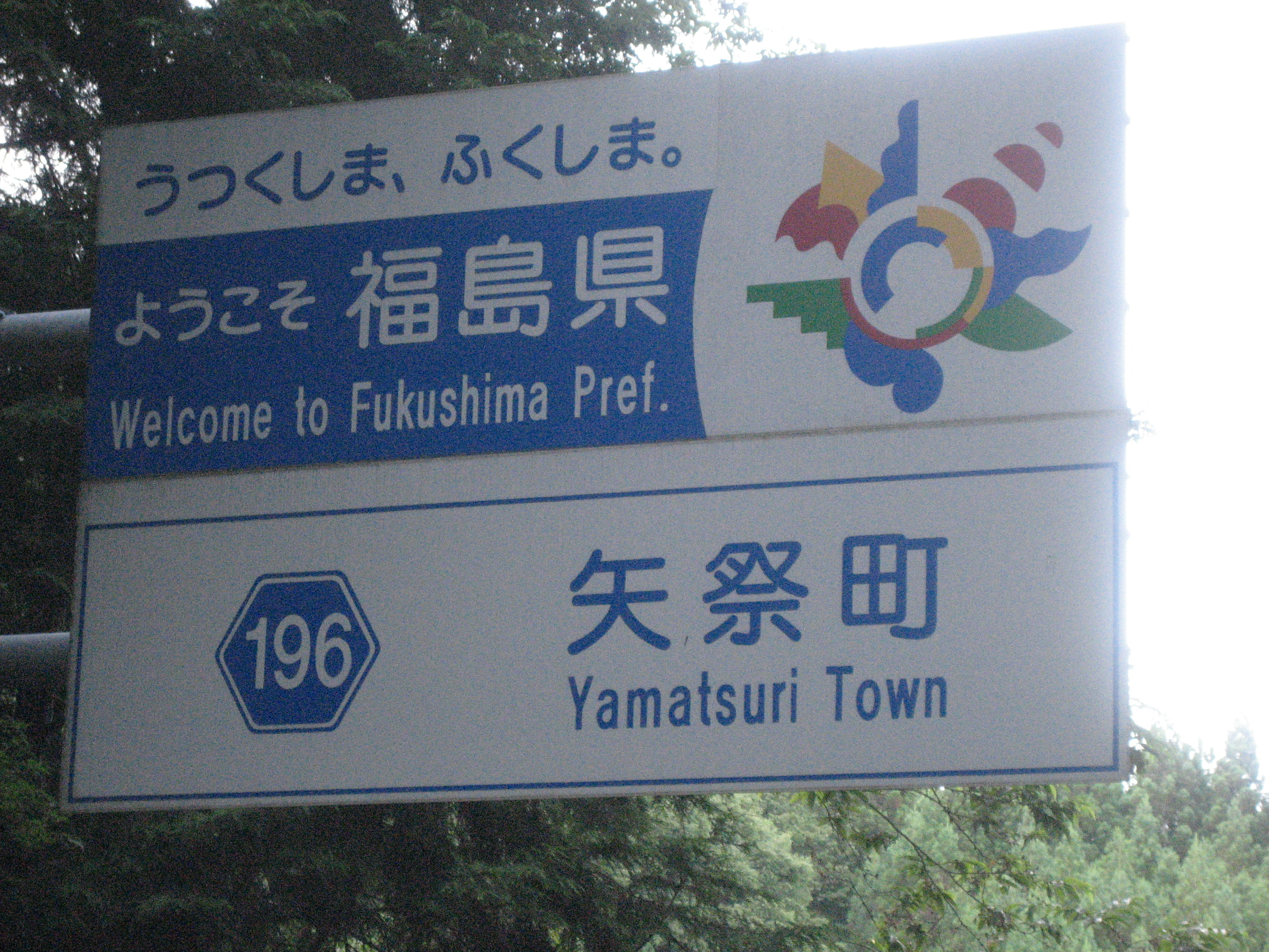 Country sign of Yamatsuri Town, Fukushima Prefecture, Japan, on the Fukushima Prefectural Road Route 196